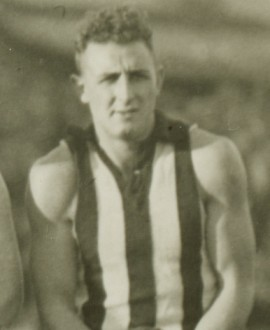 Photograph of Jack George from 1930-1931